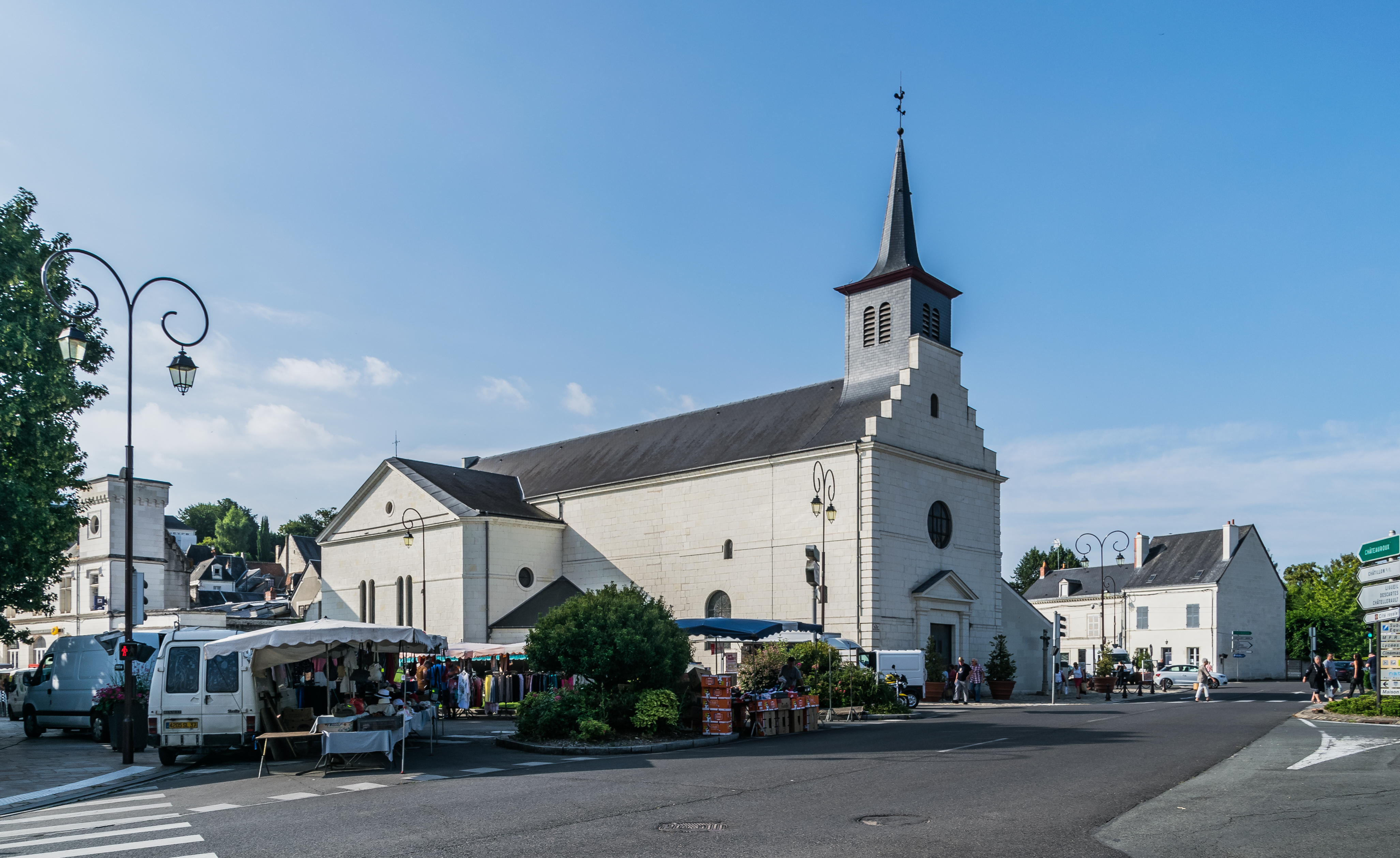 Saint Anthony church of Loches, Indre-et-Loire, France .